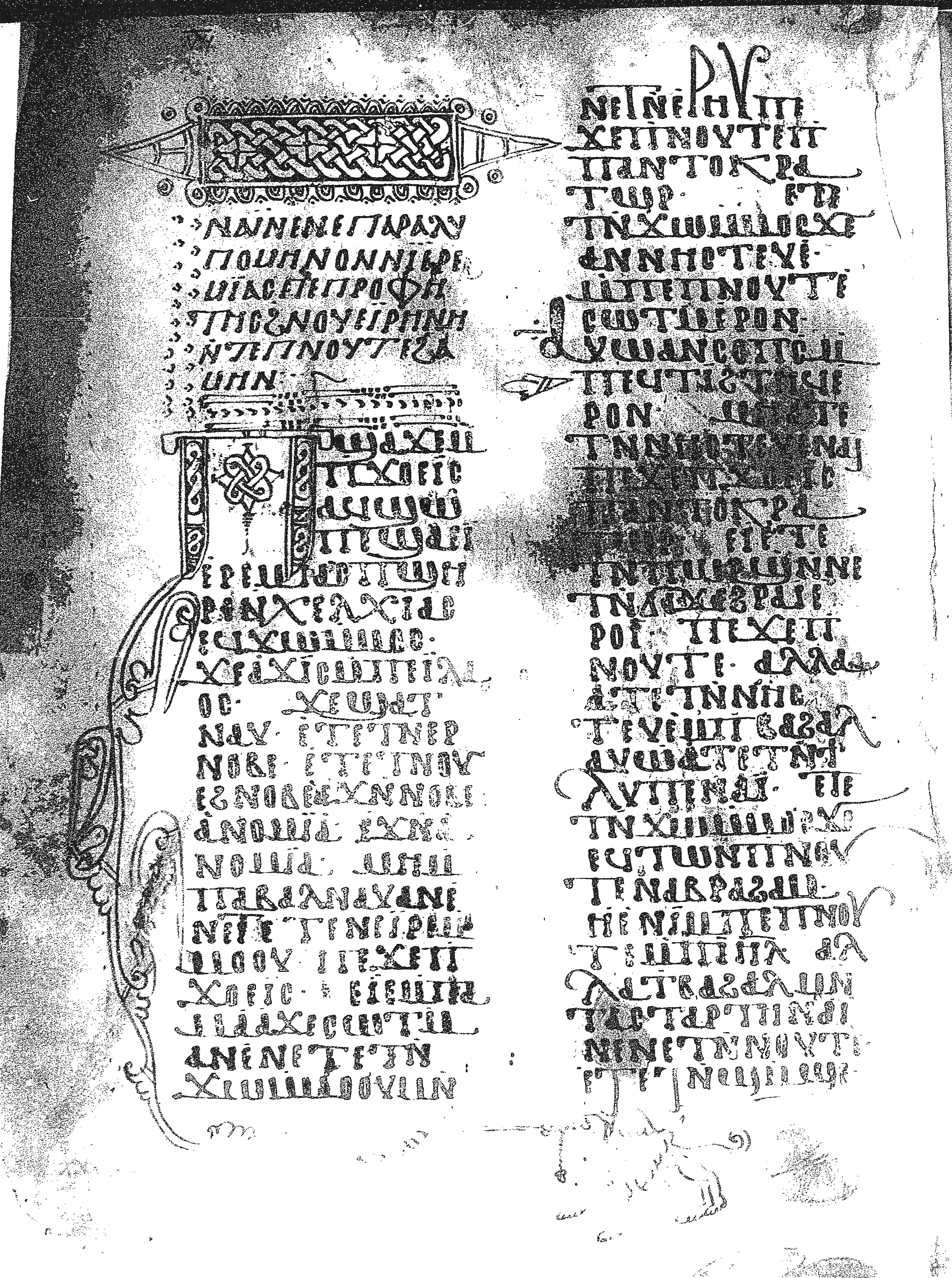 Folio 97 verso from Pierpont Morgan Library M. 578, a ninth century Synaxary that has 130 folios and contains three works: (1) The Life of Samuel of Kalamon, (2) Ephraim's Discourse on the Patriarch Joseph, and (3) a Jeremiah apocryphon known as the History of the Captivity in Babylon. The manuscript is written essentially in Sahidic with some influences from the Fayyumic dialect, most likely due to it being written for the Monastery of the Archangel St. Michael at Hamouli in the Fayyum. This folio contains the start of the third work, the History of the Captivity in Babylon.